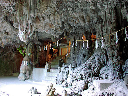 Futemma-gu Cave